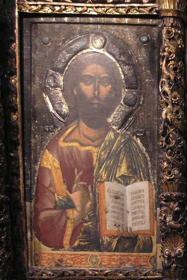 Jesus Christ - icon from Onufri, XVI century.